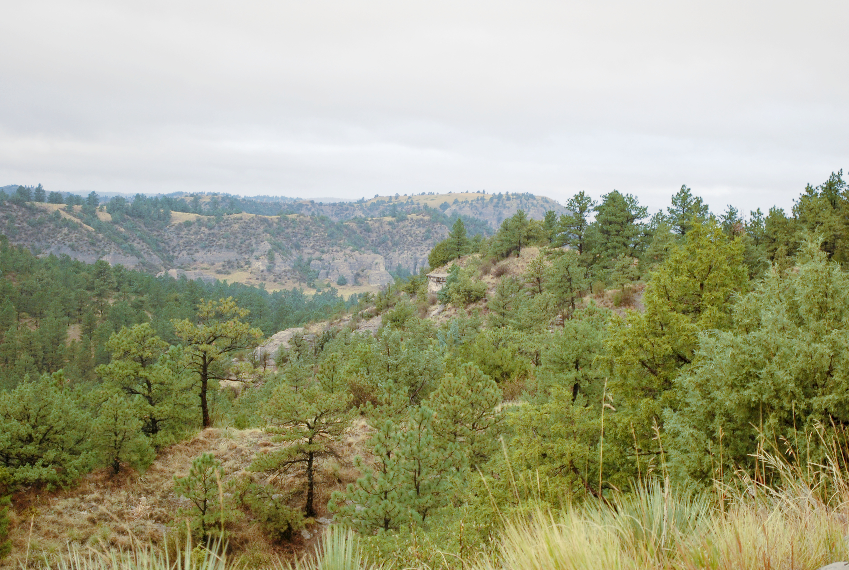 Wildcat Hills State Recreation Area in Western Nebraska after a rainstorm.